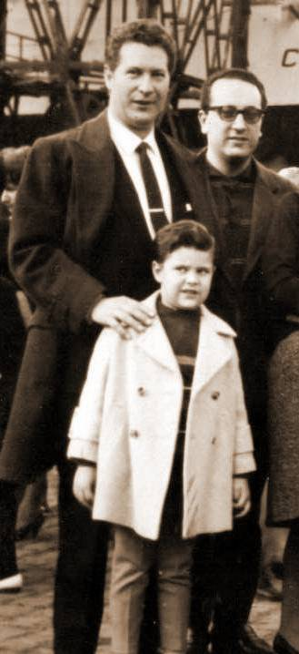 Roy Granata & son